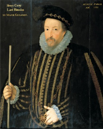 Henry Carey, 1st baron Hunsdon. Son of Mary Boleyn and cousin of Queen Elizabeth I